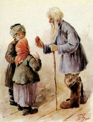 Christ is Risen! Old pre-1917 Easter postcard.